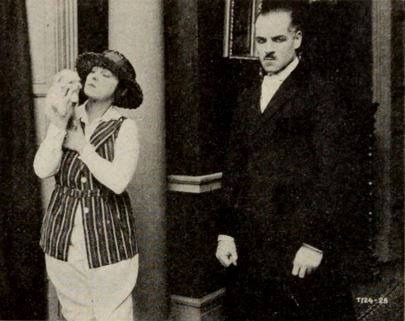 Still from the American drama film Green Eyes (1918) with Dorothy Dalton and Jack Holt, on page 28 of the August 31, 1918 Exhibitors Herald.